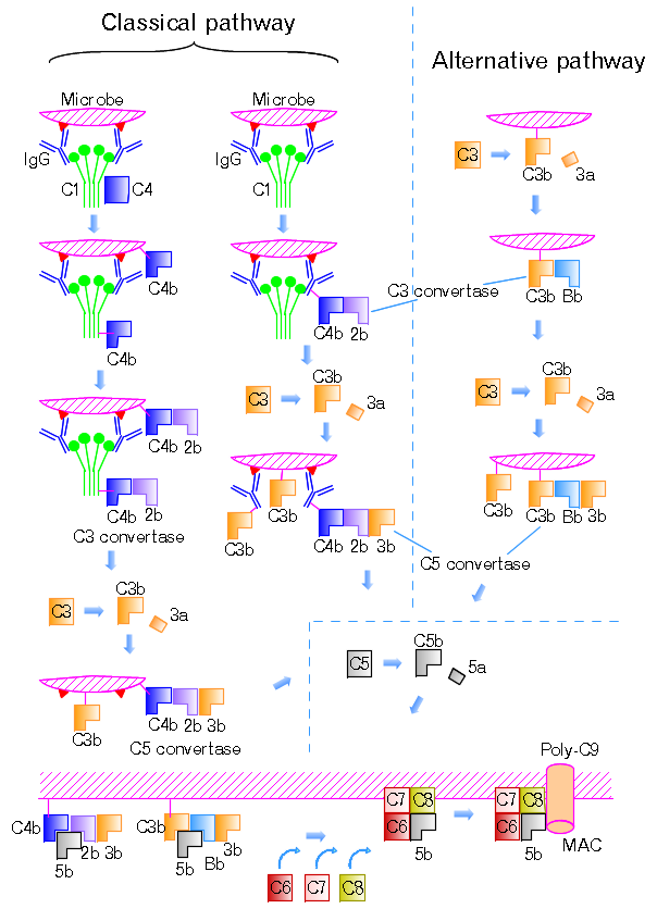 The classical and the alternative pathways with the late steps of complement activation.